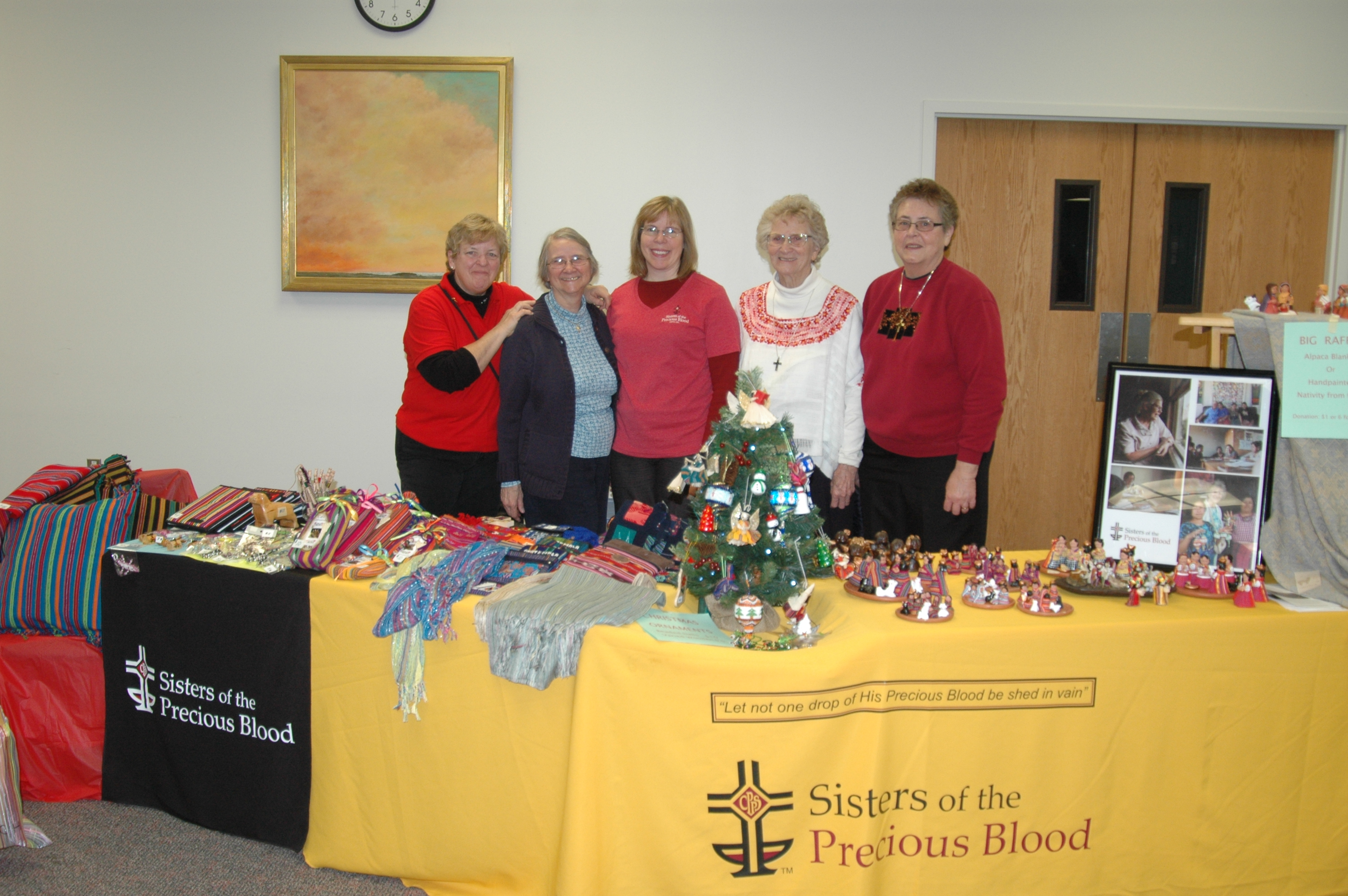 Four Sisters of the Precious Blood and one staff member sell handcrafted items from the congregation's mission in Guatemala at a fair trade sale sponsored by the Social Action Office of the Archdiocese of Cincinnati. The sale was held Dec. 1, 2018, in Dayton, Ohio.